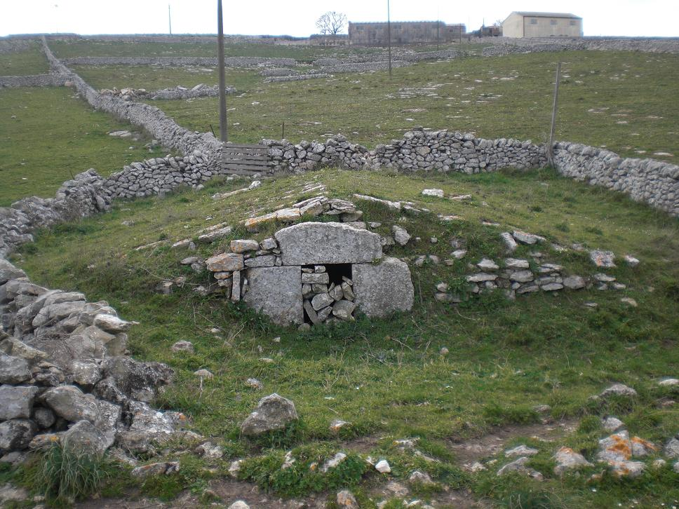 Storage house for "Snow" at 860 mt (above sea level) near Monte Arcibessi, in province of Ragusa, Sicily.